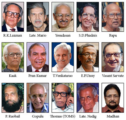 R K Laxman, Mario, Yasudasan, S D Phadnis, Bapu, Kaak, Pran, T Venkatarao, E P Unny, Vasant Sarvate, P Raobail, Gopulu, Thomas, Nadig, Madhan are the famous 15 cartoonists whose collective cartoon exhibition was organised by Indian Institute of Cartoonists at the Indian Cartoon Gallery. Apart from the exhibition "Famous Fifteen" during August17-31, 2013, IIC also felicitated these 15 leading cartoonists of India with "Lifetime Achievement Awards" by recognising their talent for excellence in the art of cartooning. This image of collective photographs of 15 cartoonists is a part of the main poster design for print of the cartoon exhibition "Famous Fifteen" during August17-31, 2013, organized by IIC